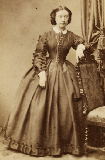 Photograph of the Danish opera singer and actress Charlotte Bournonville (1832-1911) - cropped version